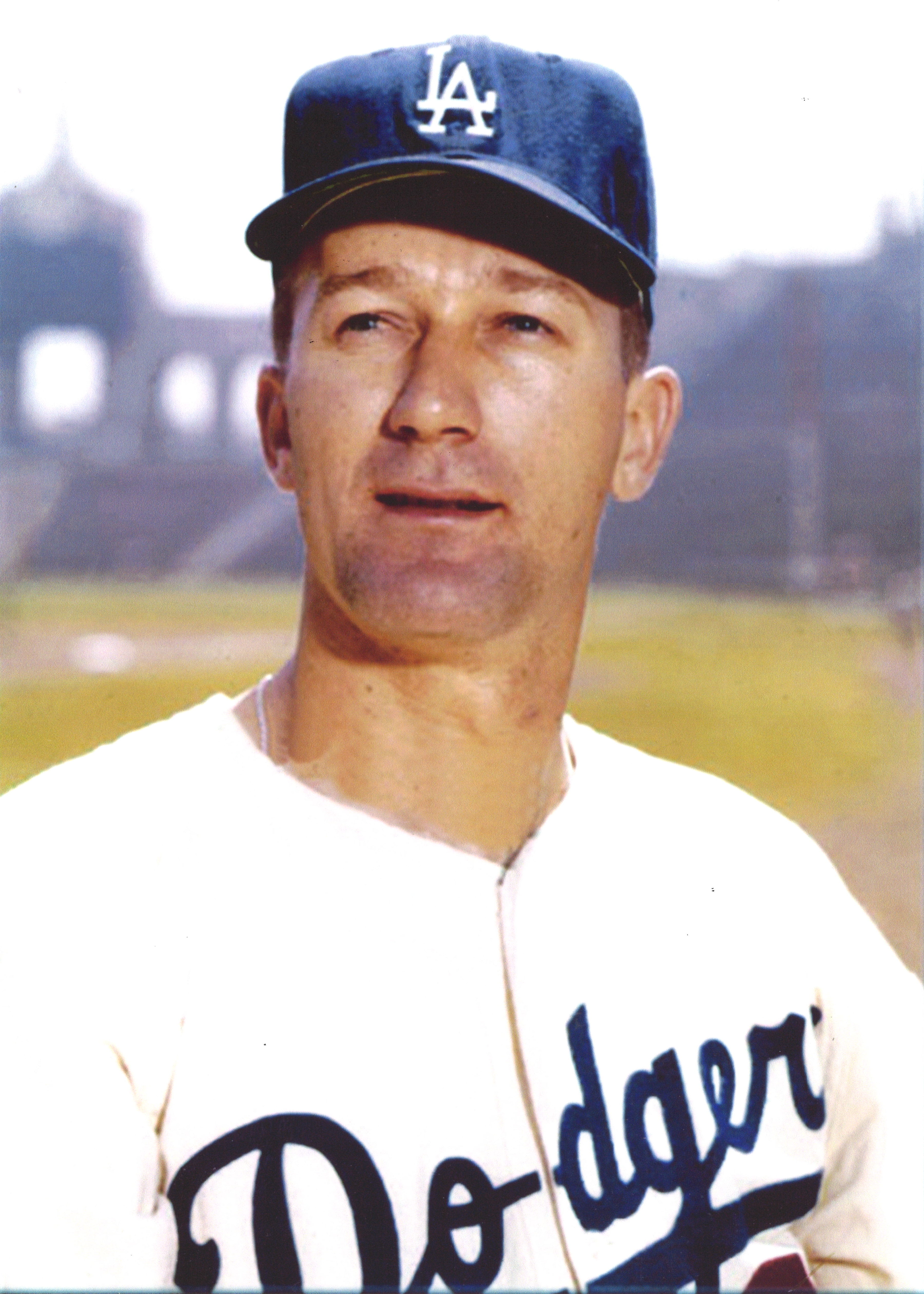 Fred Kipp in the Los Angeles Coliseum in 1958 when he played for the Los Angeles Dodgers.